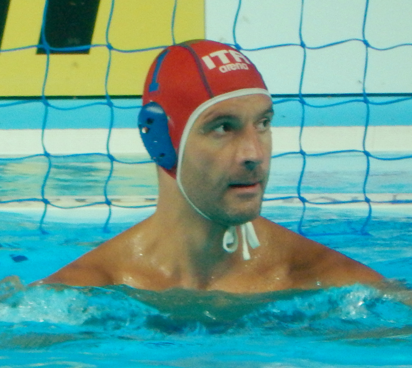 The bronze medal match between Team Greece and Team Italy. All photos have been taken from the photographers sector. I was simply usual visitor but my ticket was to non-existent seats, therefore I was moved to that sector. All good photos I upload to WikiCommons for free use.